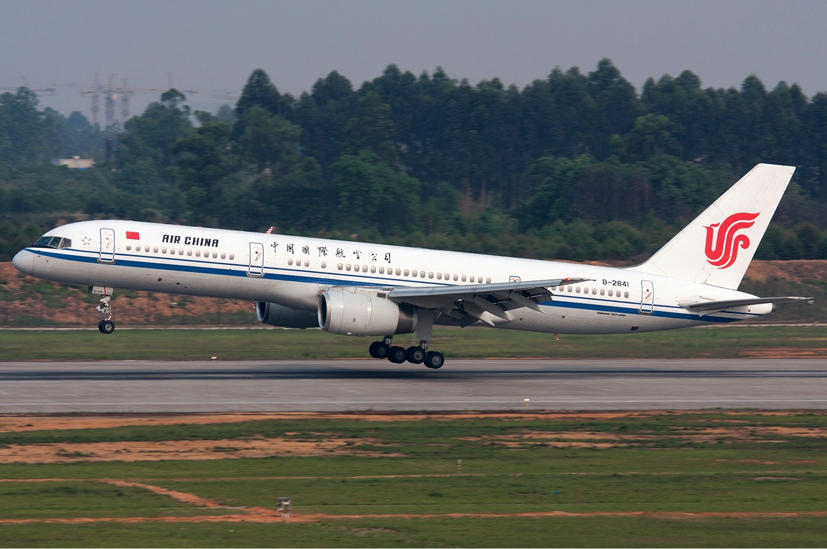 Air China Boeing 757-200